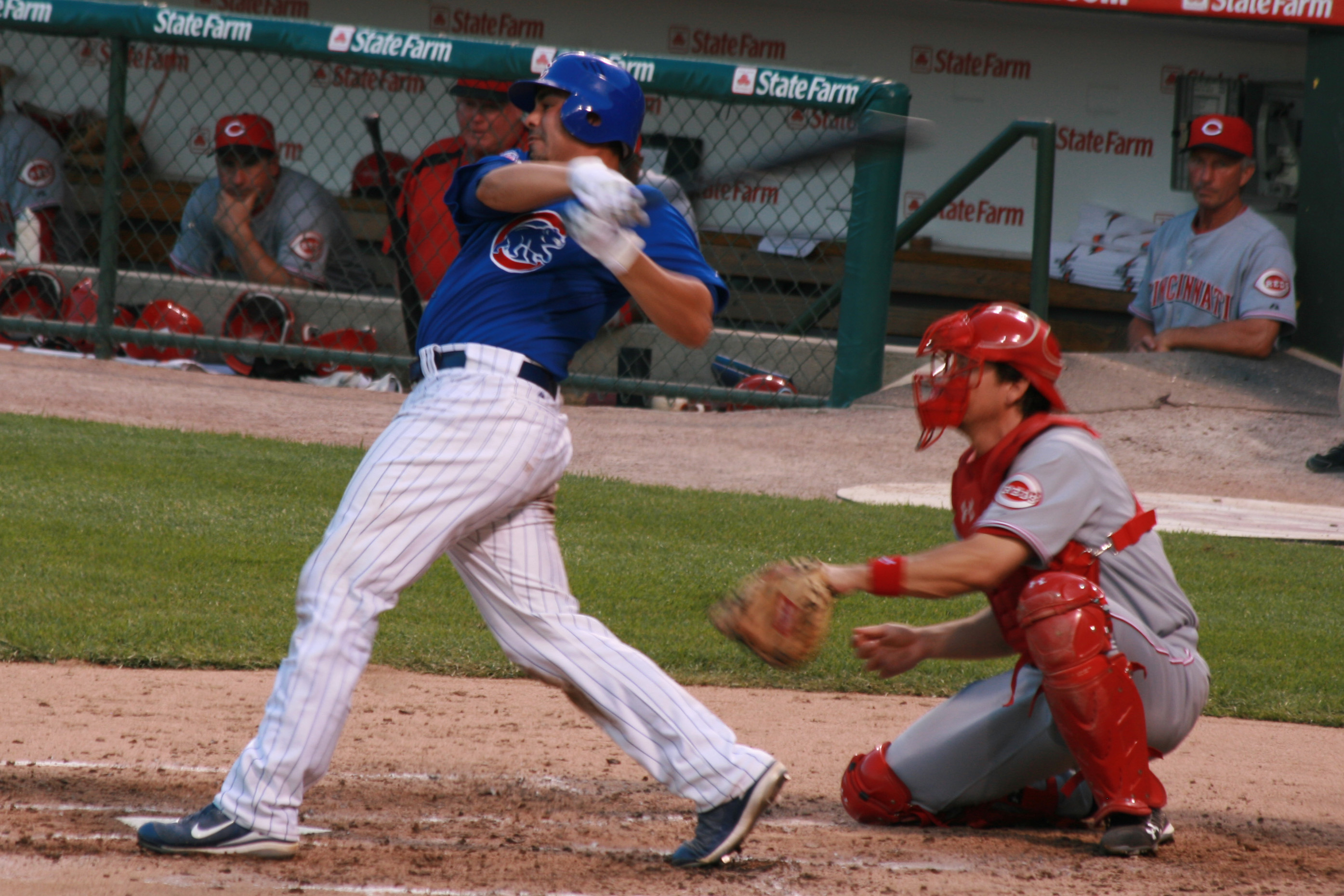 Geovany Soto, of the Chicago Cubs, takes a swing (cropped).